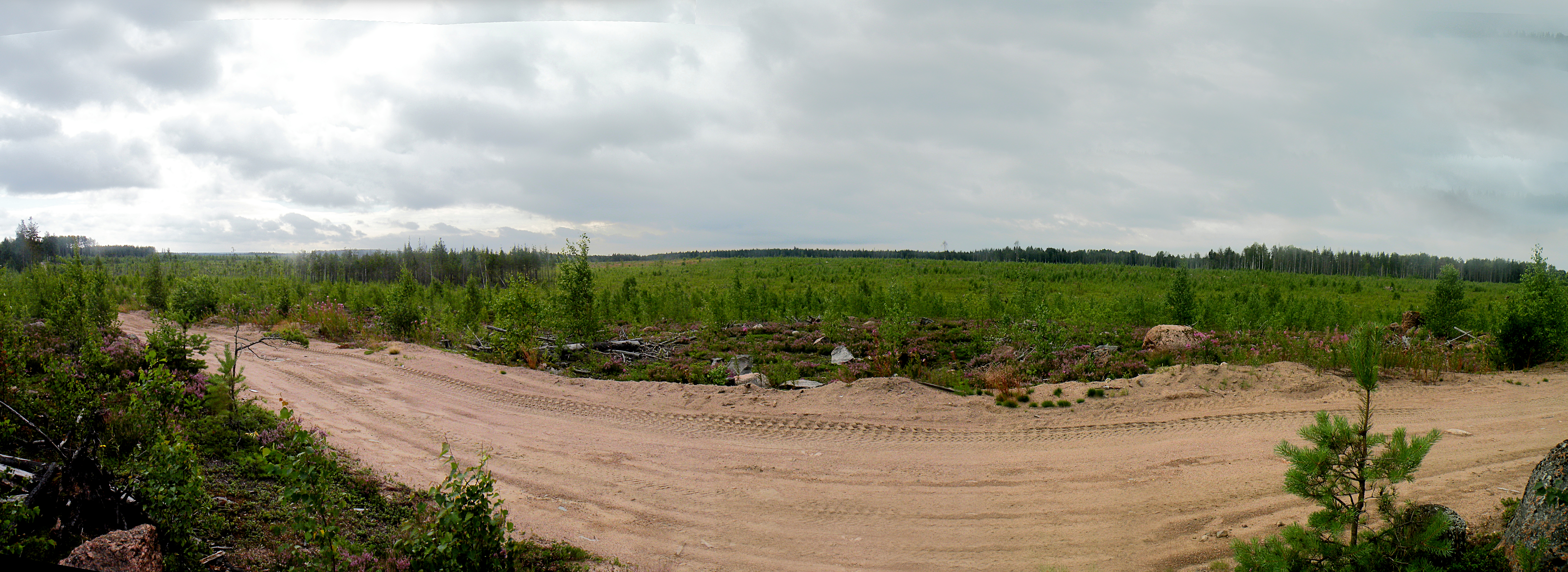 Landscape_at_Summa-Hotinen.